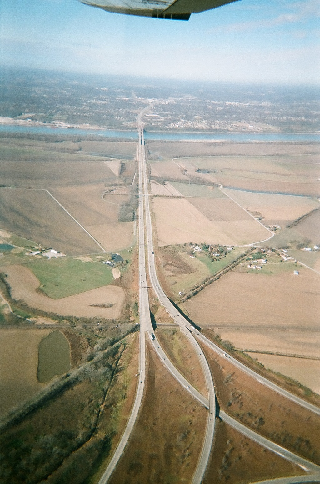 Interstate 255/U.S. Route 50 near Illinois Route 3, taken from an airplane. The Mississippi River is near the horizon.